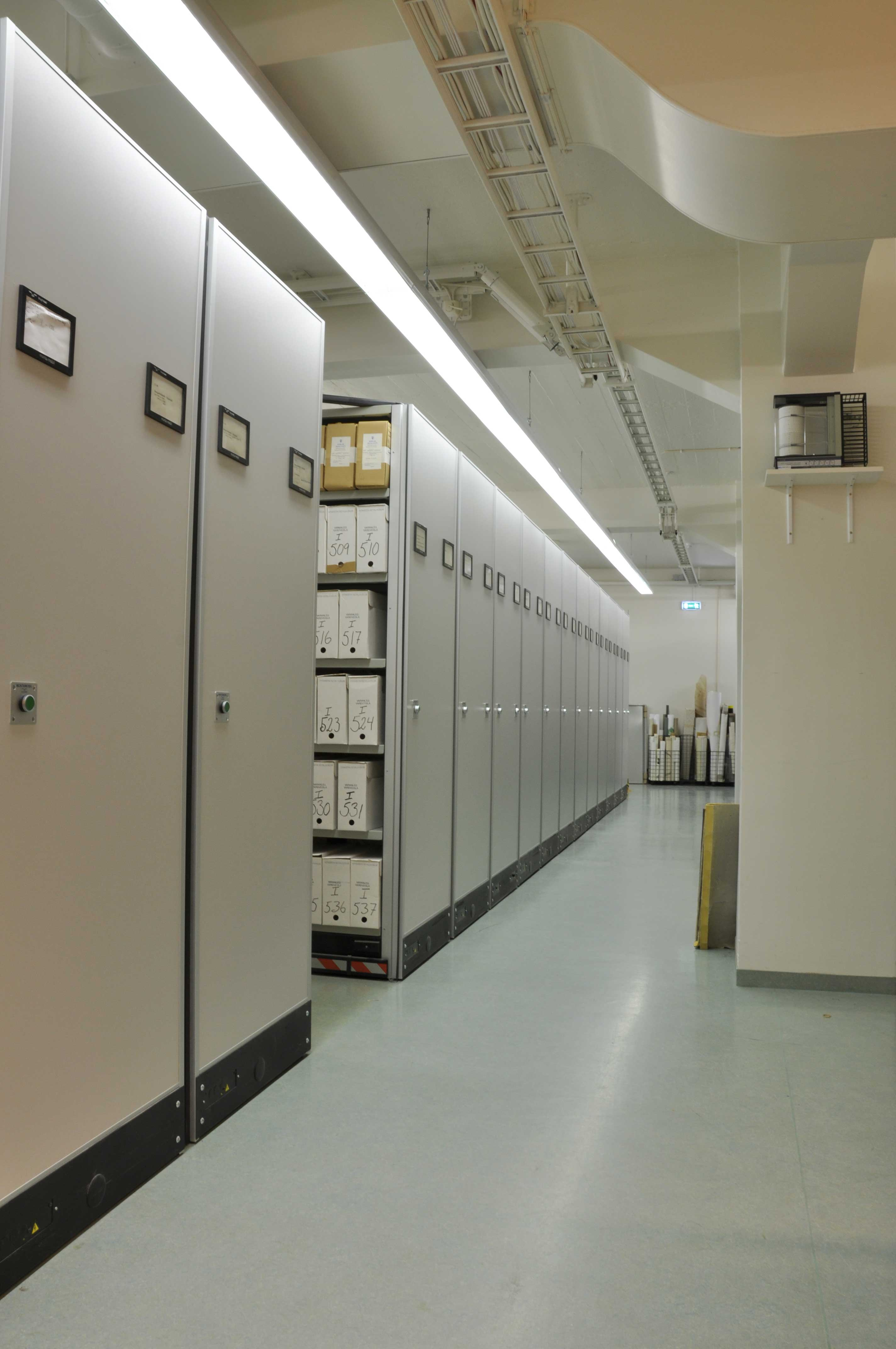 File cabinets in the Reykjavík Municipality Archives. Picture taken in June 2011.